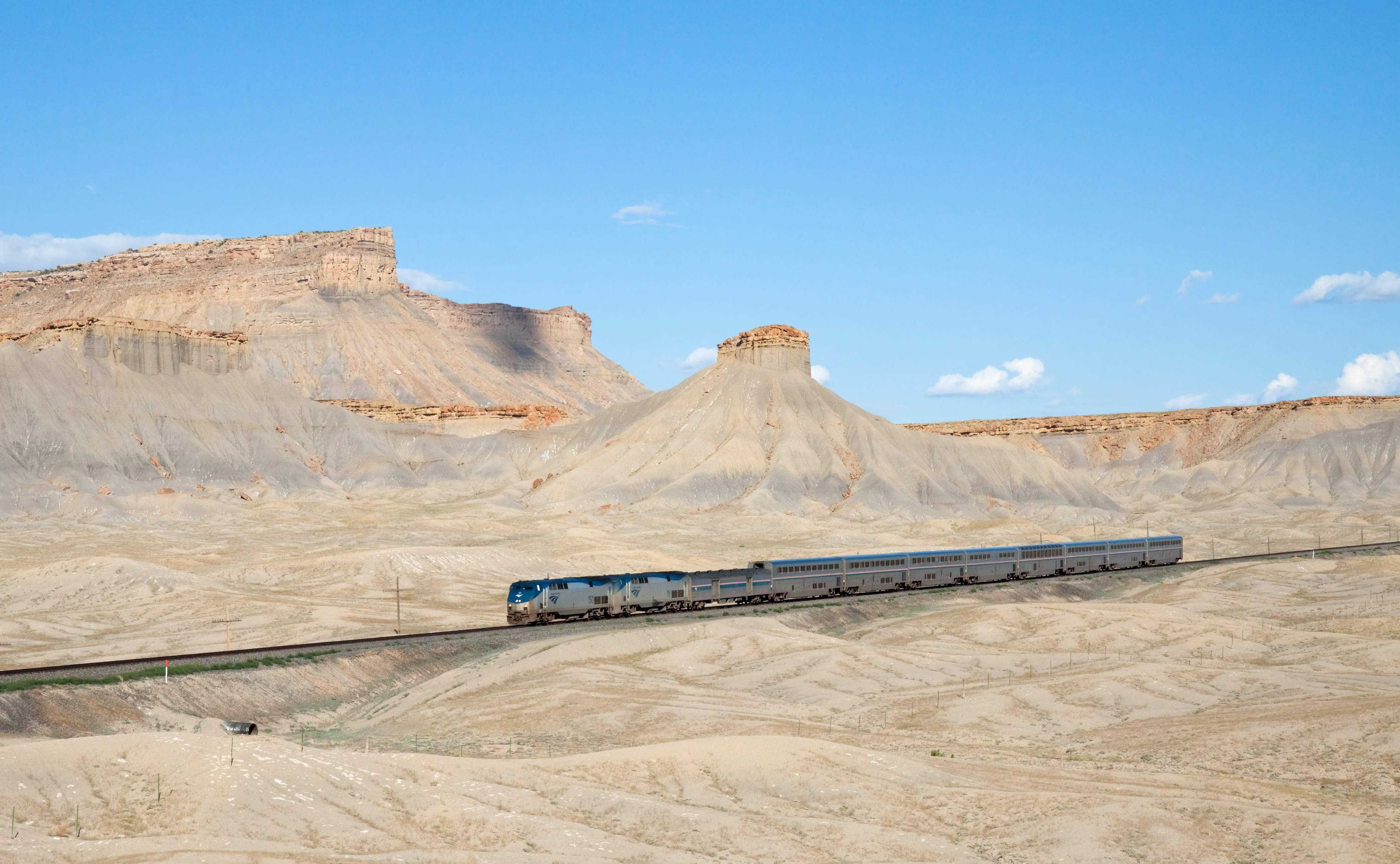 Westbound California Zephyr, operated by Amtrak, in front of the Book Cliffs, between Green River and Floy, Utah, USA. The train is hauled by two General Electric P42DC locomotives.